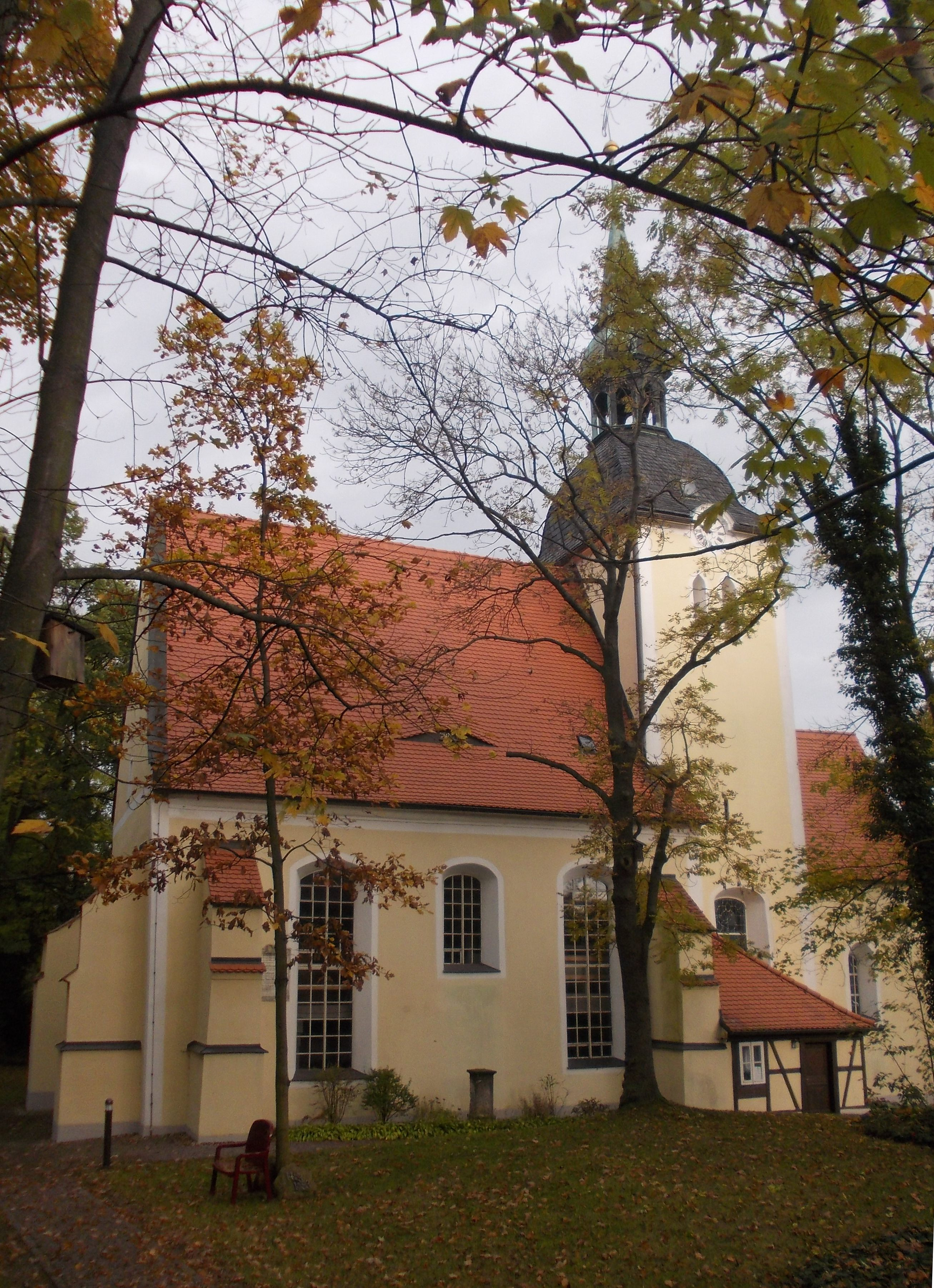 Burkartshain church (Wurzen, Leipzig district, Saxony)